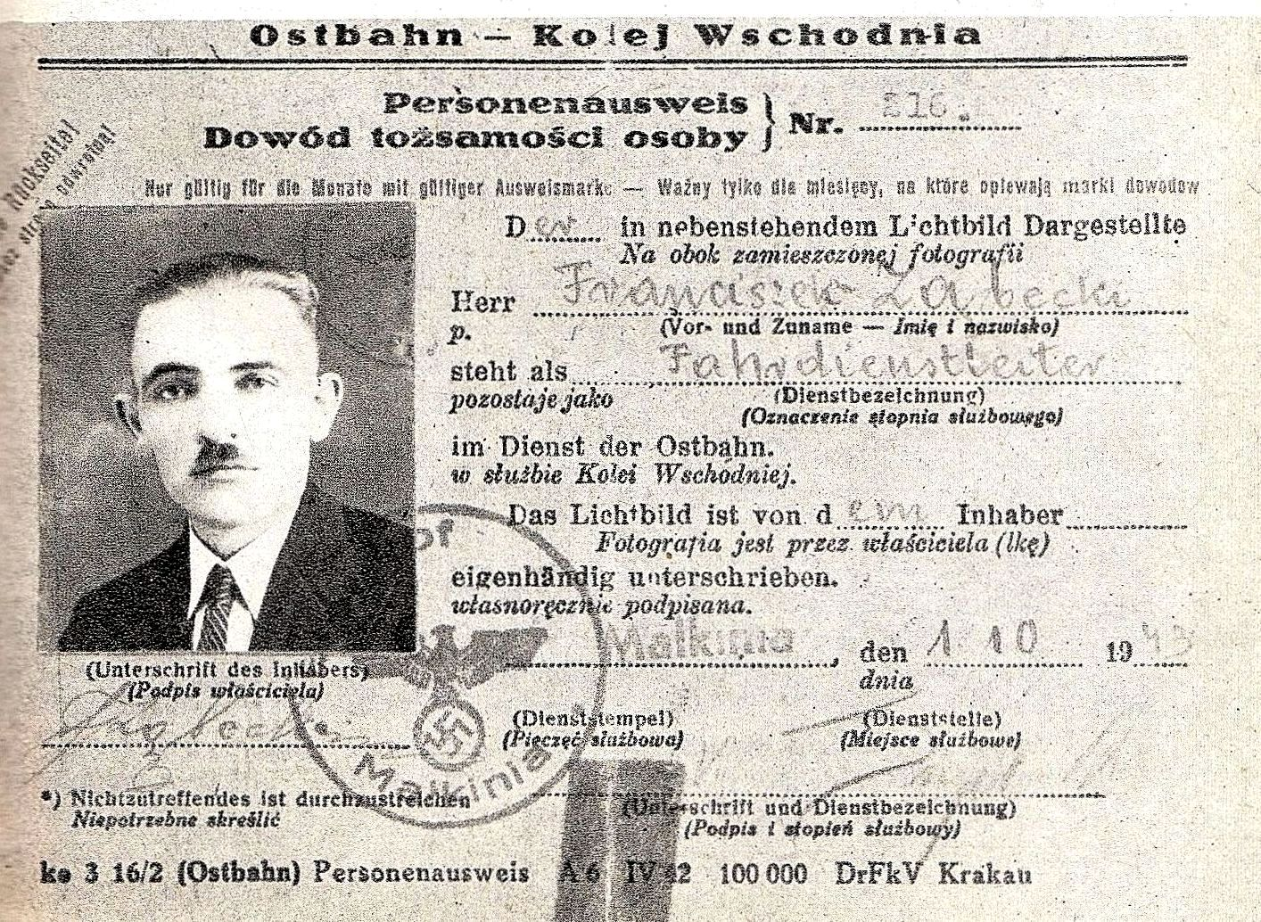 Identity card issued by Generaldirektion der Ostbahn in 1943